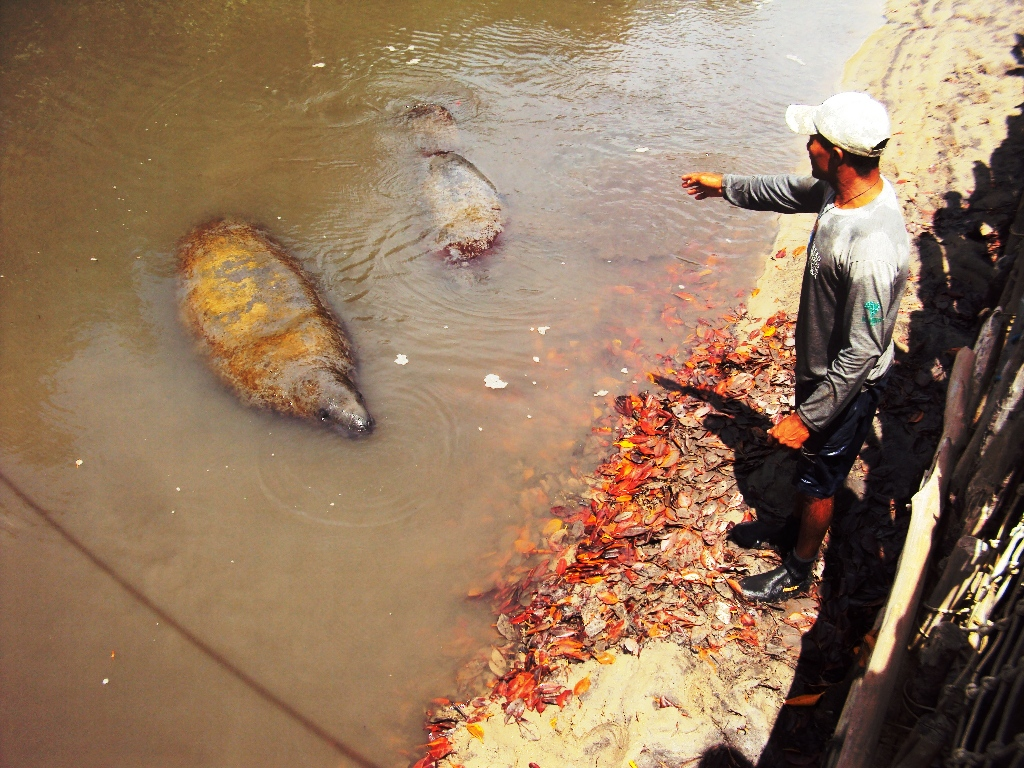 Zookeeper with two West Indian manatees (Trichechus manatus) in Peixe-boi Project, Paraíba State, Brazil.